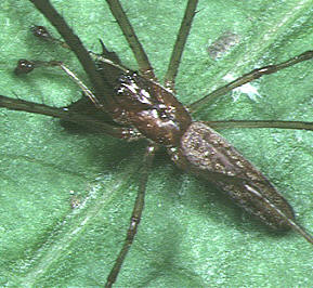 male Tetragnatha praedonia from Okinawa.